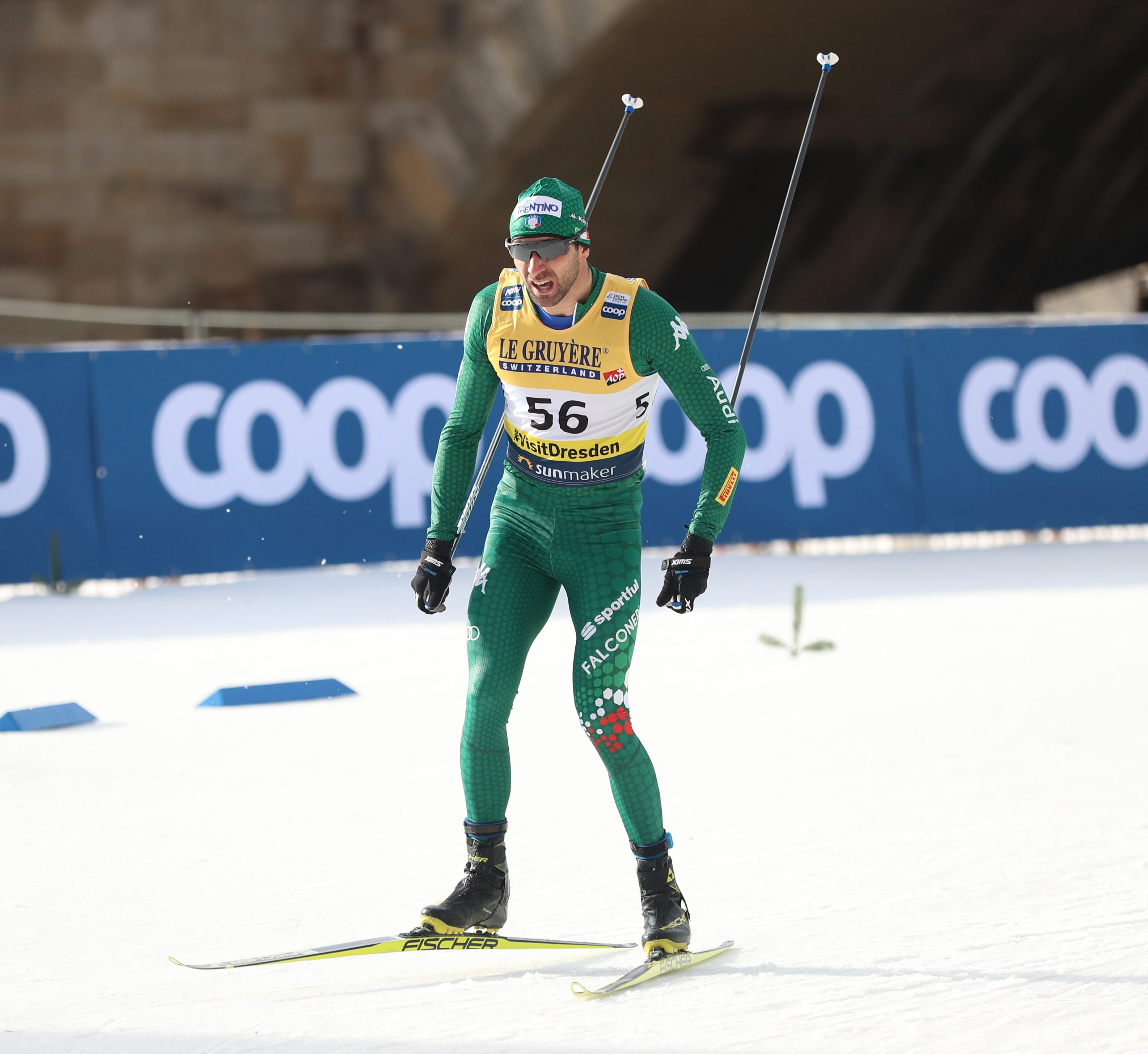 Men's Qualification at the FIS Cross-Country World Cup Dresden 2019 (1.6 km Free Sprint)